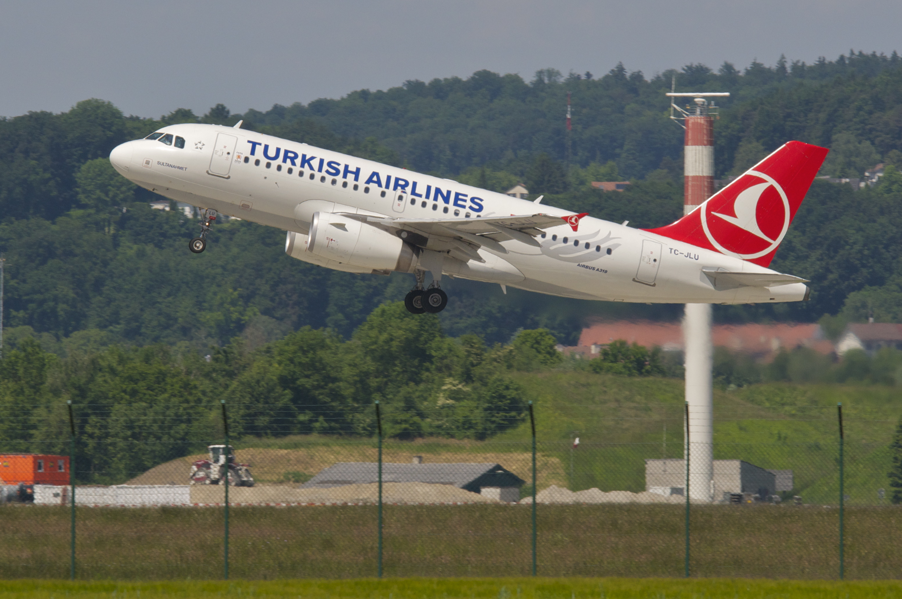 Departing as TK 1914 to Istanbul Atatürk...